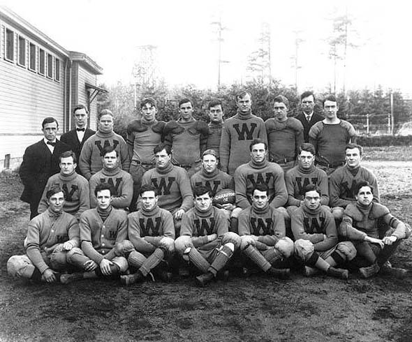 Subjects (LCTGM): Football players--Washington (State)--Seattle; Group portraits--Washington (State)--Seattle